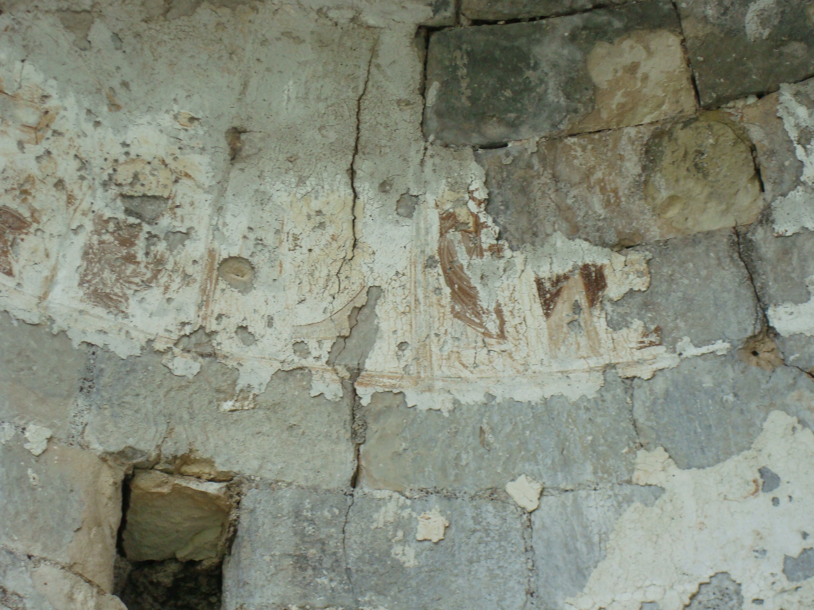 Rests of frescos in a tower of Suiren fortress